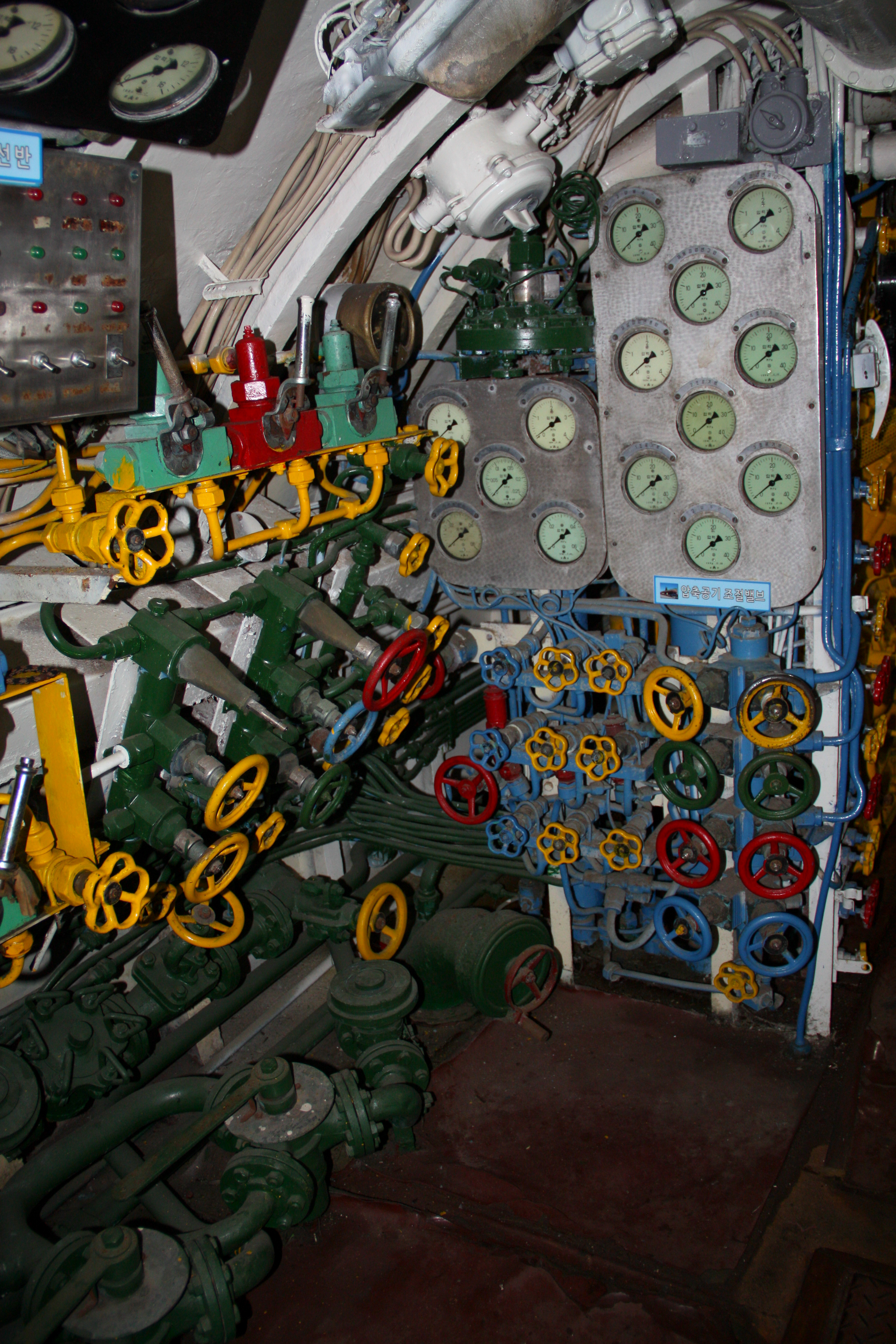 North Korean Sang-O submarine that ran aground in South Korean waters near Gangneung, in 1996